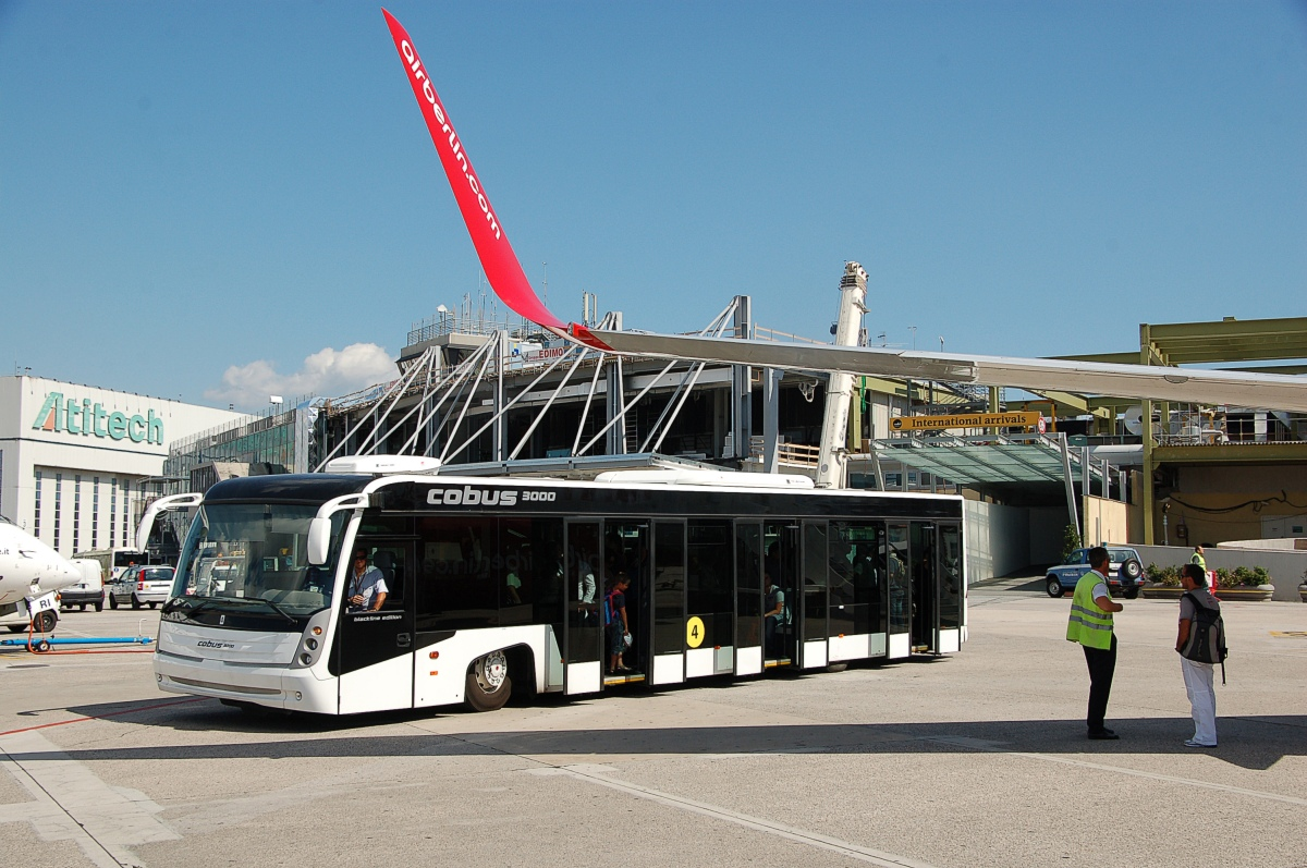 Naples 2010